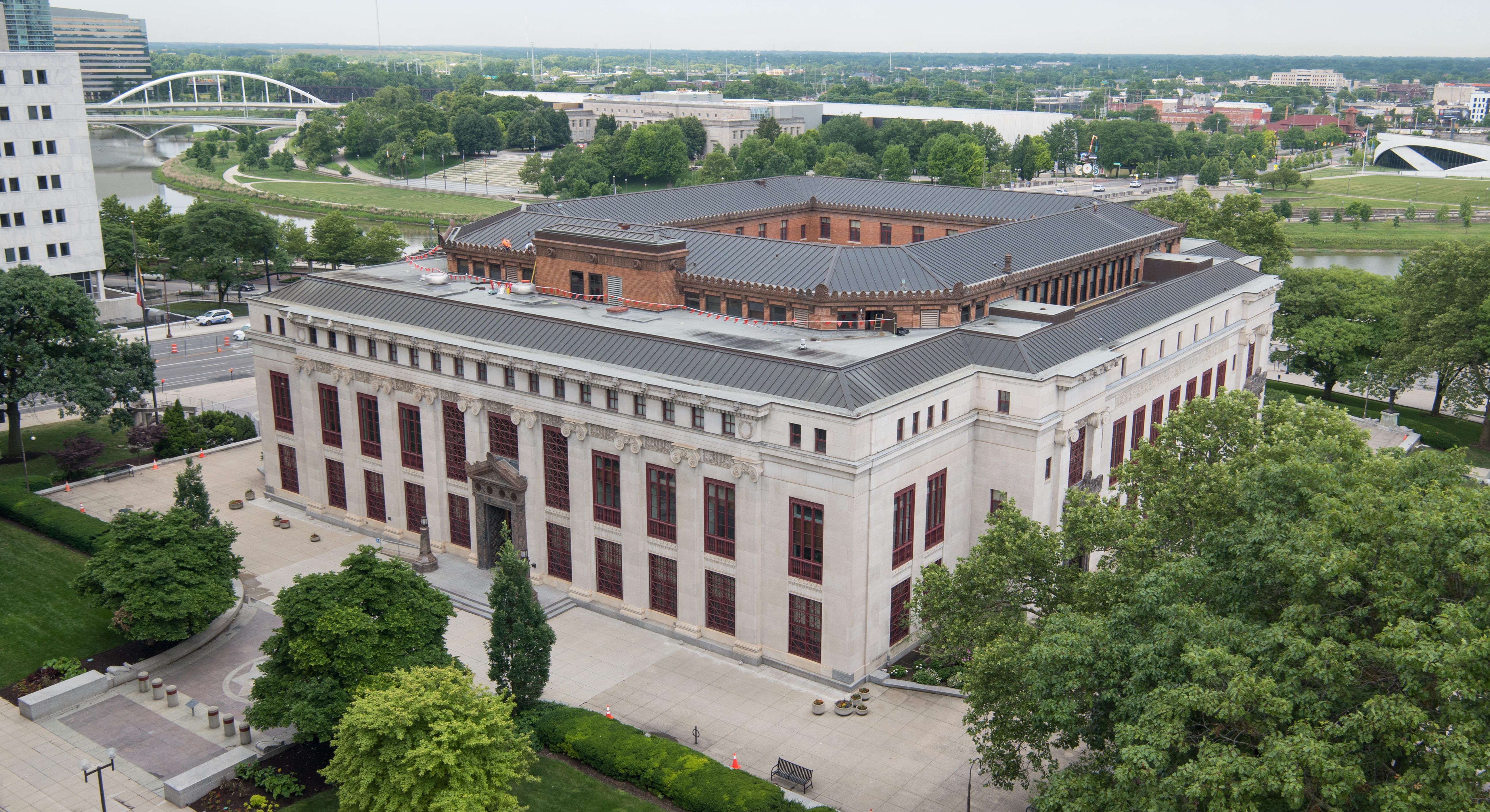 Columbus City Hall on the day of its Christopher Columbus statue removed.